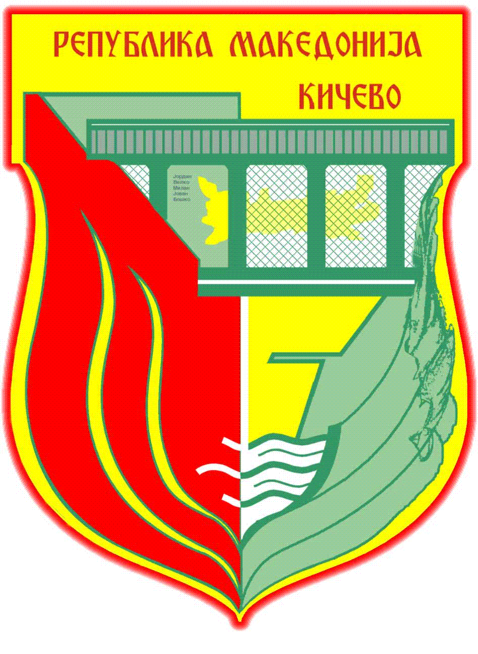 Coat of arms of Kičevo Municipality, Macedonia, public domain